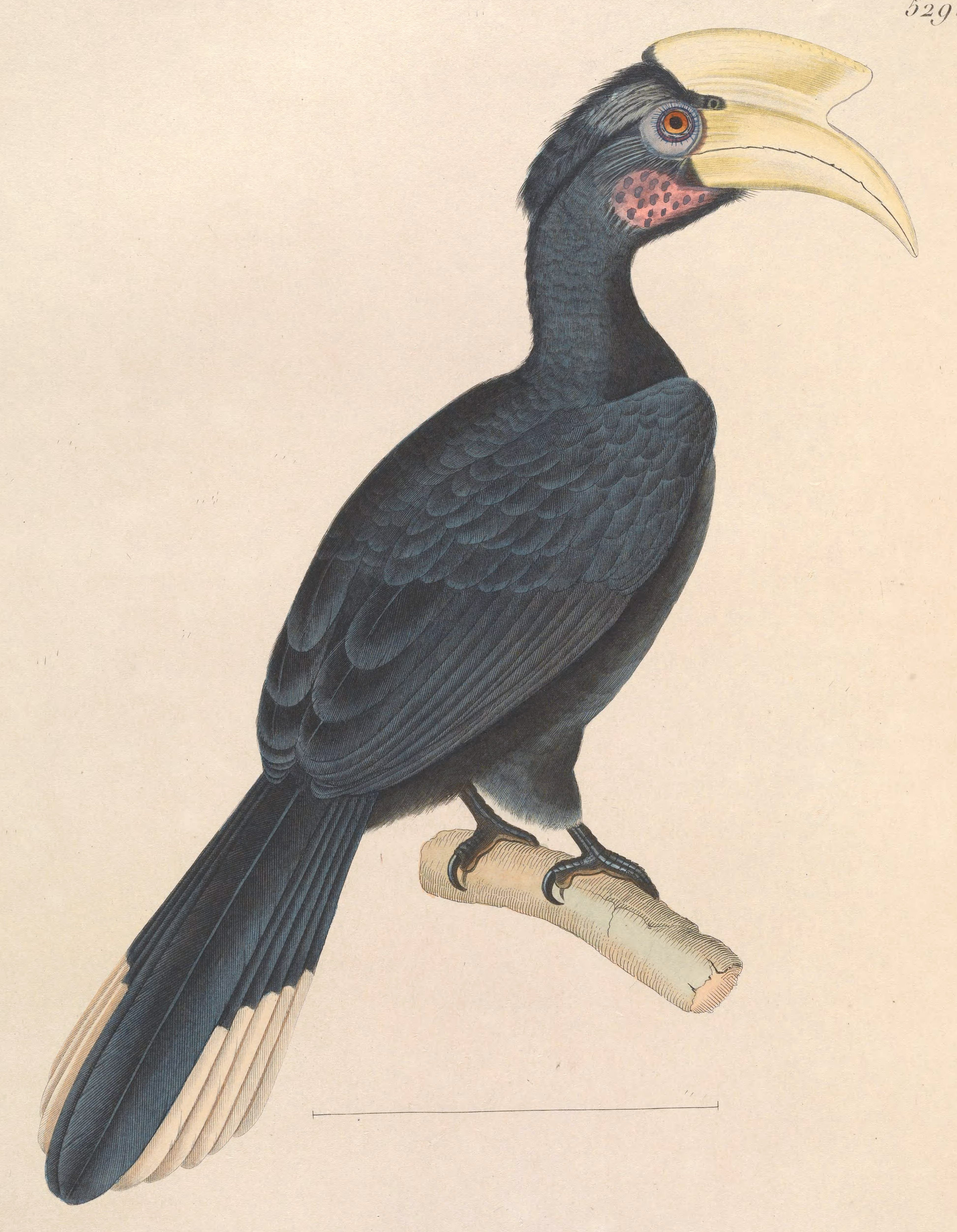 « Buceros antracicus » = Anthracoceros malayanus (Black Hornbill) - male